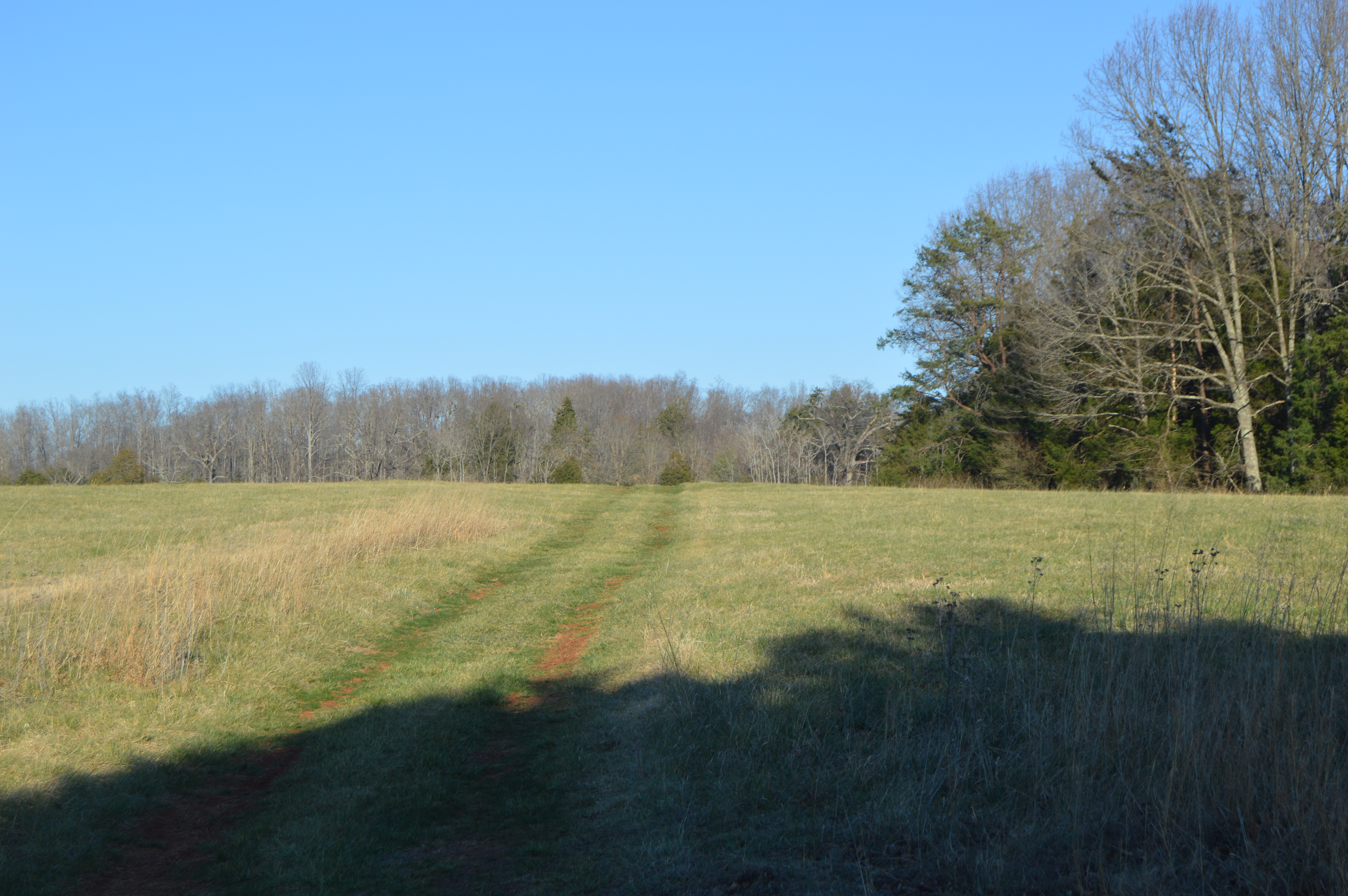 Rear driveway to the former Tusculum estate (no buildings remain at the site), seen from Tusculum Lane east of Clifford in Amherst County, Virginia, United States. The farmstead was listed on the National Register of Historic Places in 2004, and despite its destruction, it has not yet been removed from the Register.